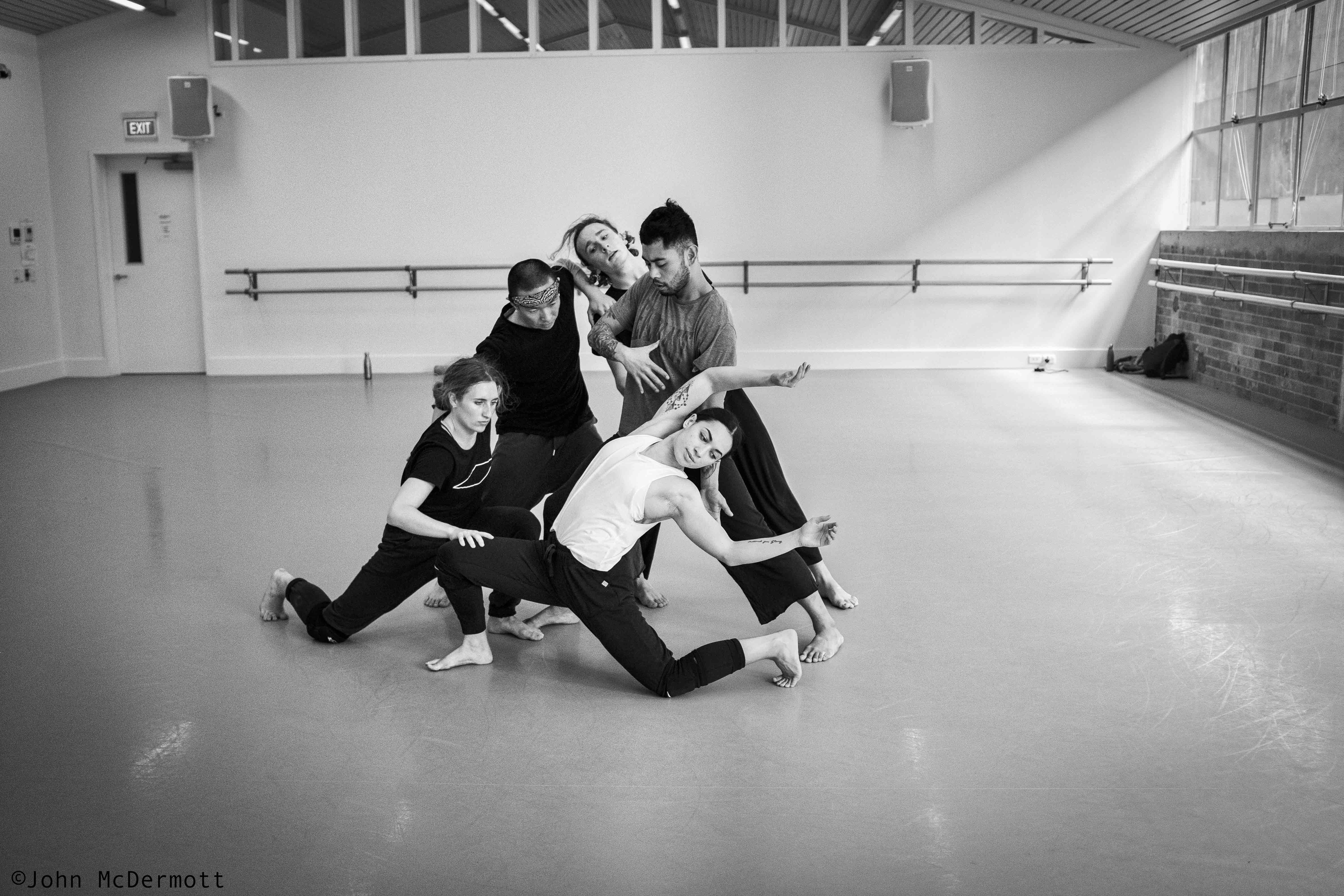 NZDC 'The Fibonacci' by Victoria Columbus - photograph by John McDermott